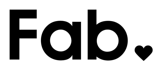 Logo of e-commerce company